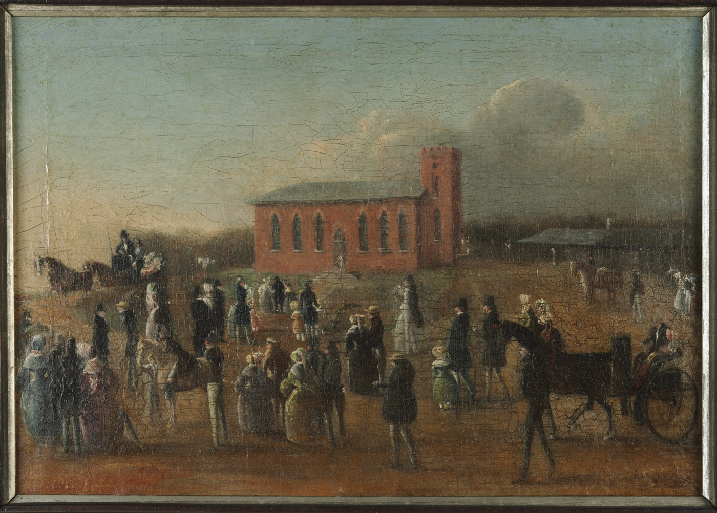 Landscape painting of church in Port Macquarie, New South Wales, Australia